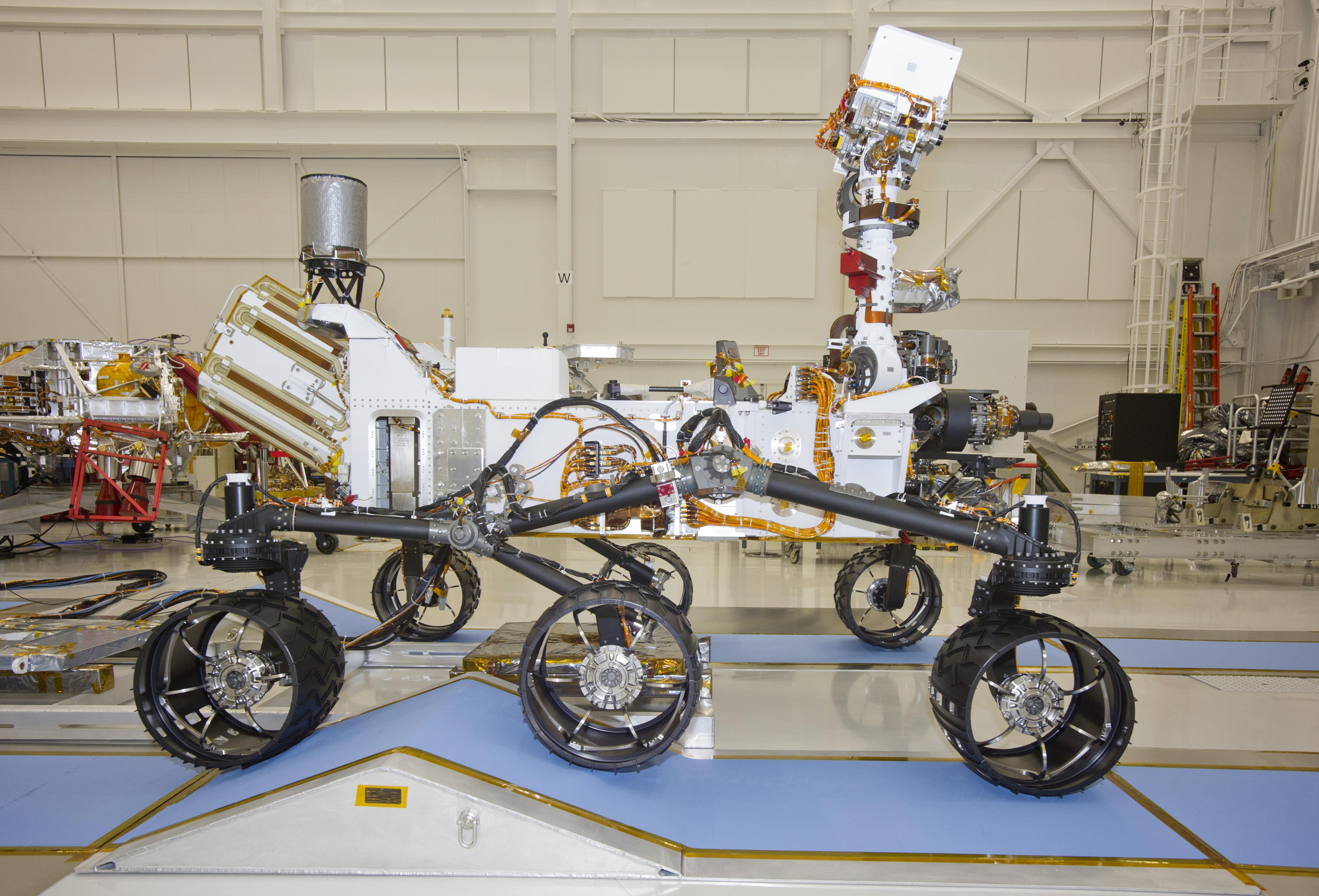 This photograph of the NASA Mars Science Laboratory rover, Curiosity, was taken during mobility testing on June 3, 2011. The location is inside the Spacecraft Assembly Facility at NASA's Jet Propulsion Laboratory, Pasadena, Calif. Preparations are on track for shipping the rover to NASA's Kennedy Space Center in Florida in June and for launch during the period Nov. 25 to Dec. 18, 2011. JPL, a division of the California Institute of Technology in Pasadena, manages the Mars Science Laboratory mission for the NASA Science Mission Directorate, Washington. This mission will land Curiosity on Mars in August 2012. Researchers will use the tools on the rover to study whether the landing region has had environmental conditions favorable for supporting microbial life and favorable for preserving clues about whether life existed.